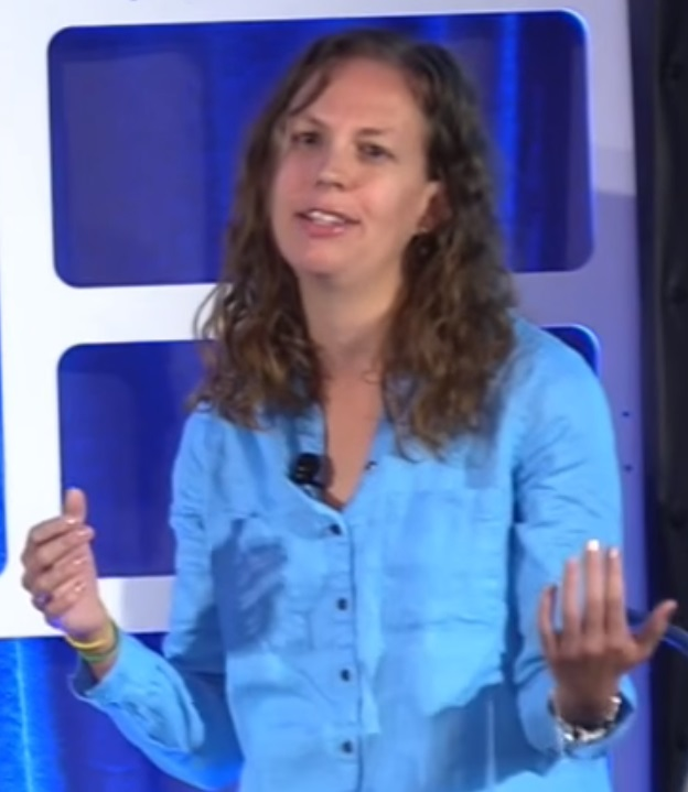 Keynote Panel: Artificial Intelligence and Machine Learning Keynote Panel: Artificial Intelligence and Machine Learning - Deepak Agarwal, VP of Engineering, LinkedIn; Mazin Gilbert, VP of Advanced Technology, AT&T Labs; Rachel Thomas, Co-founder, fast.ai; Tarry Singh, Deep Learning Executive Rachel Thomas was selected by Forbes as one of 20 Incredible Women in AI, earned her math PhD at Duke, and was an early engineer at Uber. She is co-founder of fast.ai, which created the “Practical Deep Learning for Coders” course that over 100,000 students have taken. Rachel is a popular writer and keynote speaker. Her writing has been read by over half a million people; has been translated into Chinese, Spanish, Korean, & Portuguese; and has made the front page of Hacker News 7x. She is on twitter @math_rachel and her website is here.